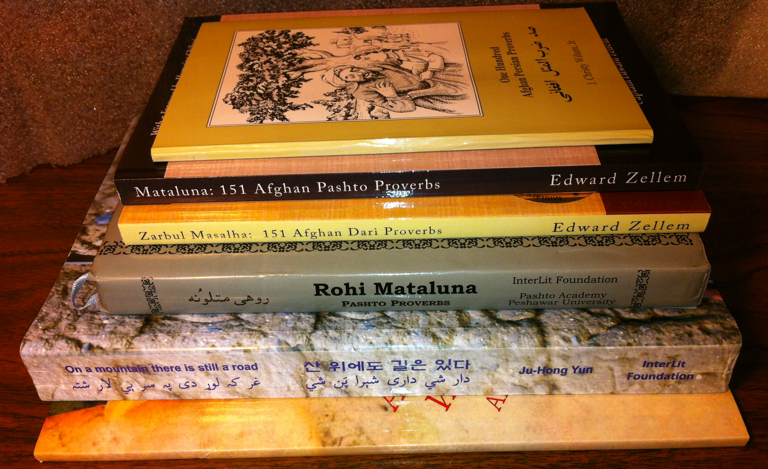 A collection of books containing collections of Afghan proverbs in three languages of Afghanistan. The bottom book, without the title visible, is Zellem's children's version of the Dari collection.